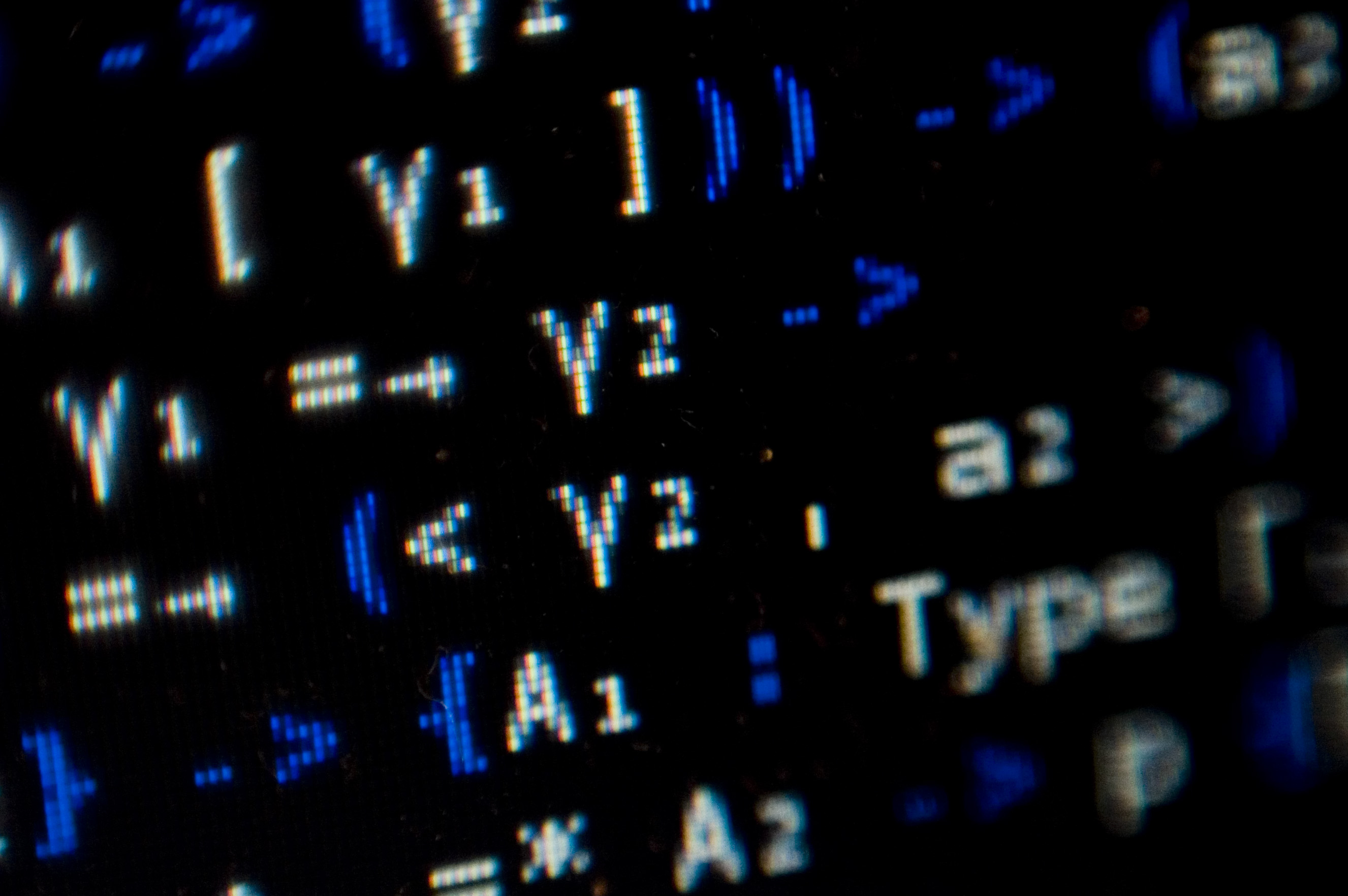 Agda 2 is a proof assistant developed at the Chalmers institute of technology. This is a shot of an ongoing proof related to category theory. It is taken on the LCD screen of a laptop.